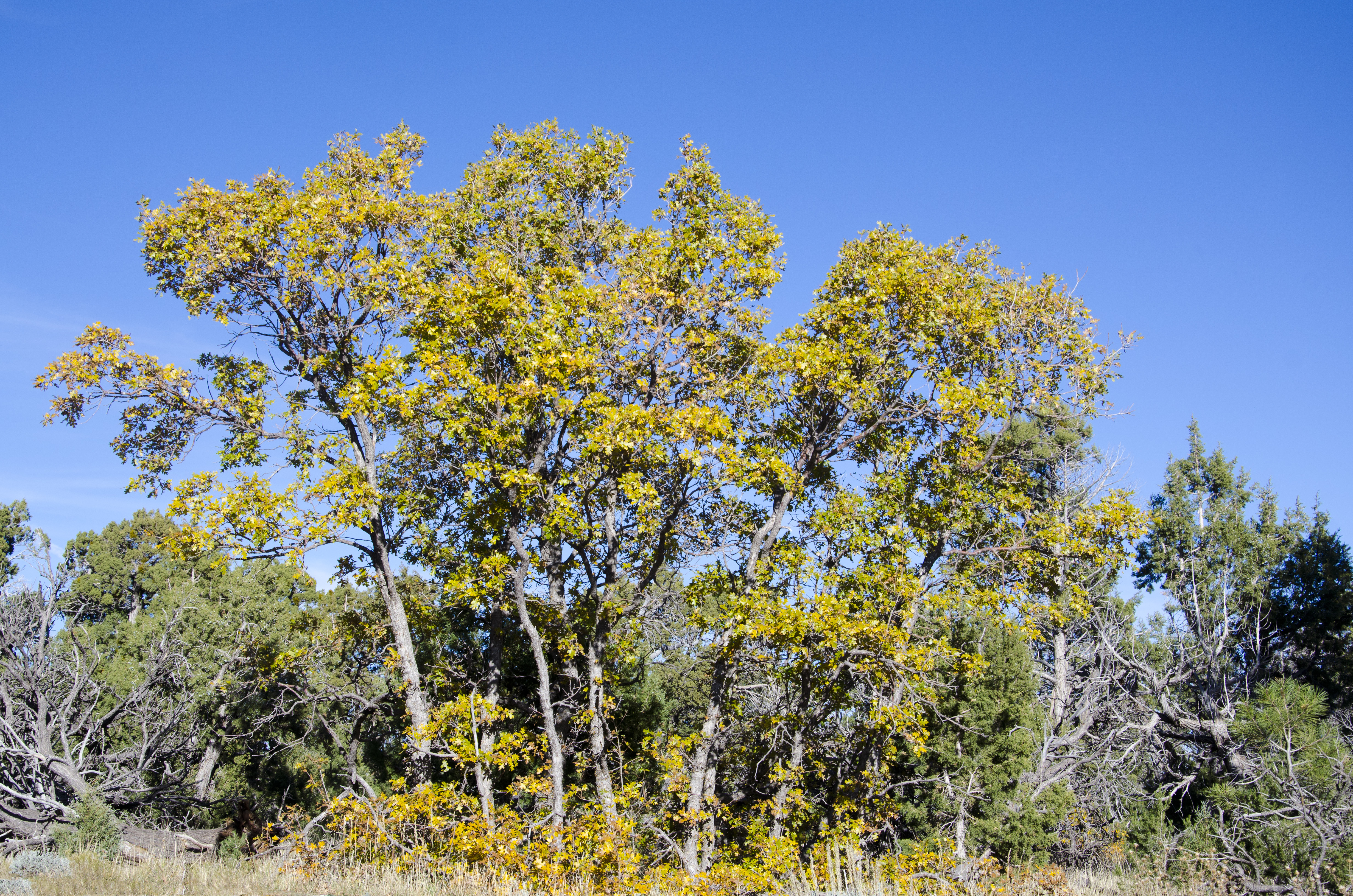 Gambel Oak Quercus gambelii along Desert View Drive on the South Rim of Grand Canyon National park. NPS photo by Michael Quinn.